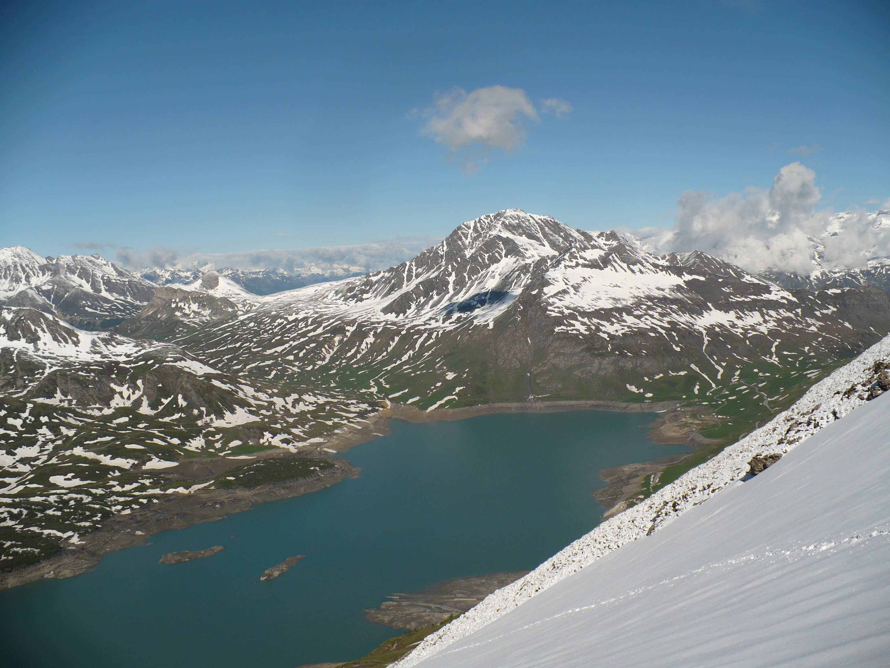 Punta Clairy and Mont Cenis Reservoir - Haute Maurienne - France